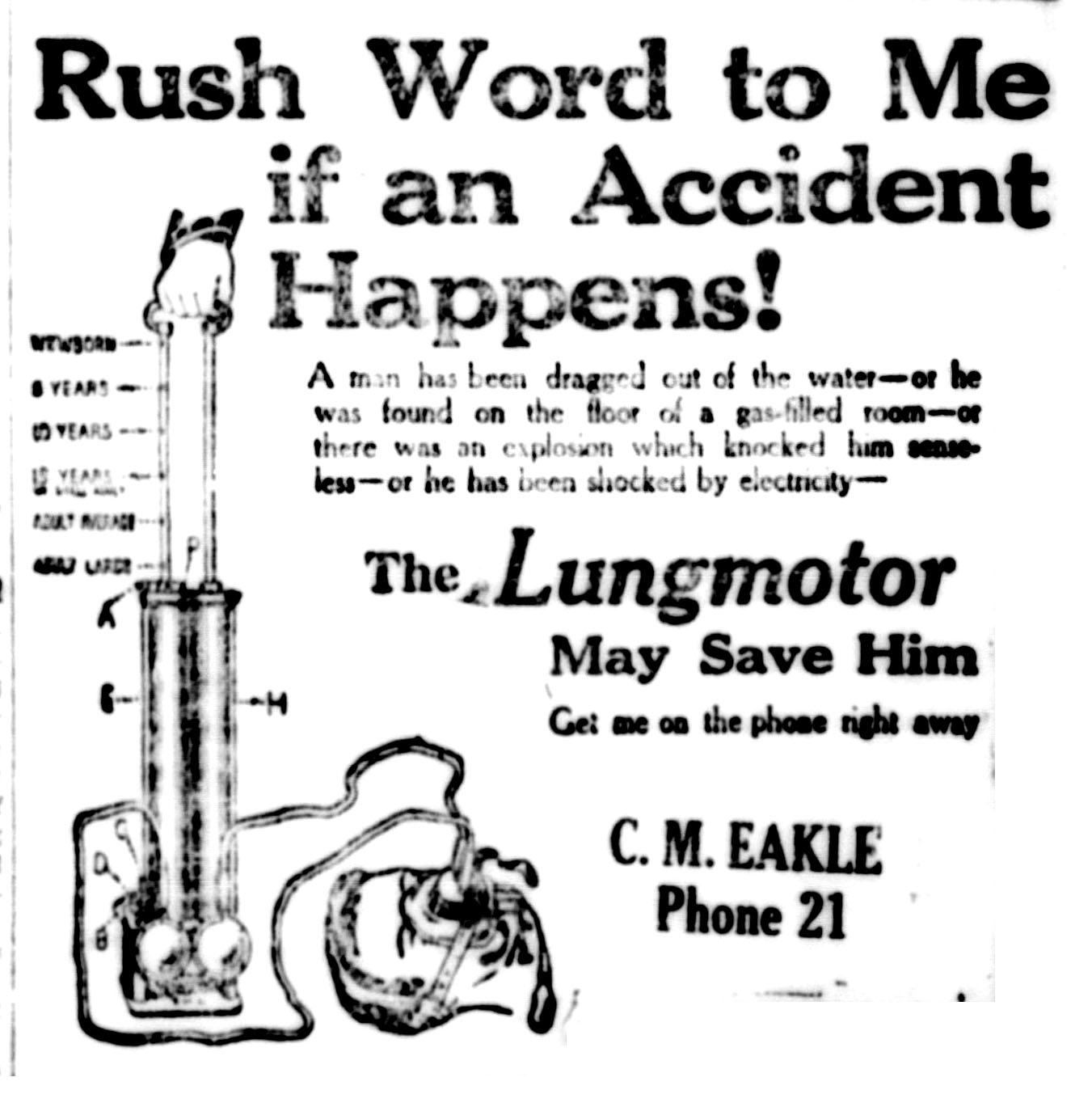 An advertisement for the "Lungmotor", an early resuscitation device. Utilizing a pump with indicators of use depending on the age of patient.